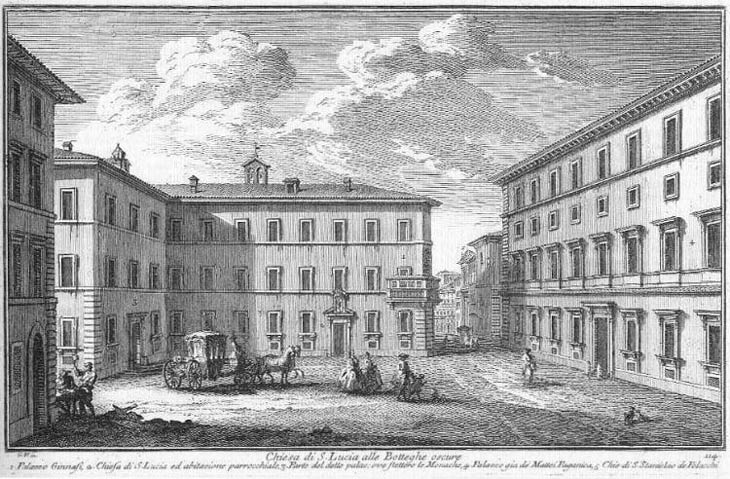 1) Palazzo Ginnasi; 2) S. Lucia; 3) Part of Palazzo Ginnasi once used by the nuns; 4) Palazzo Mattei Paganica, then Caetani; 5) S. Stanislao dei Polacchi.